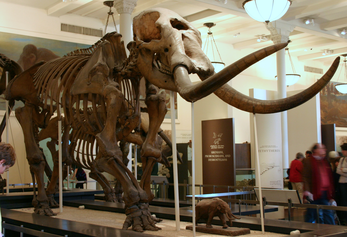 Mammut americanum, "Warren mastodon" specimen.